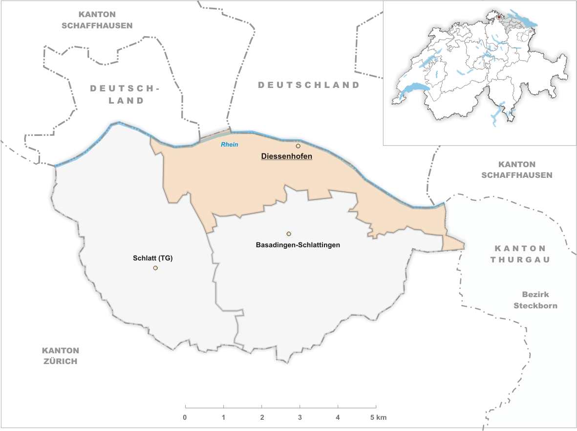 Municipality Diessenhofen